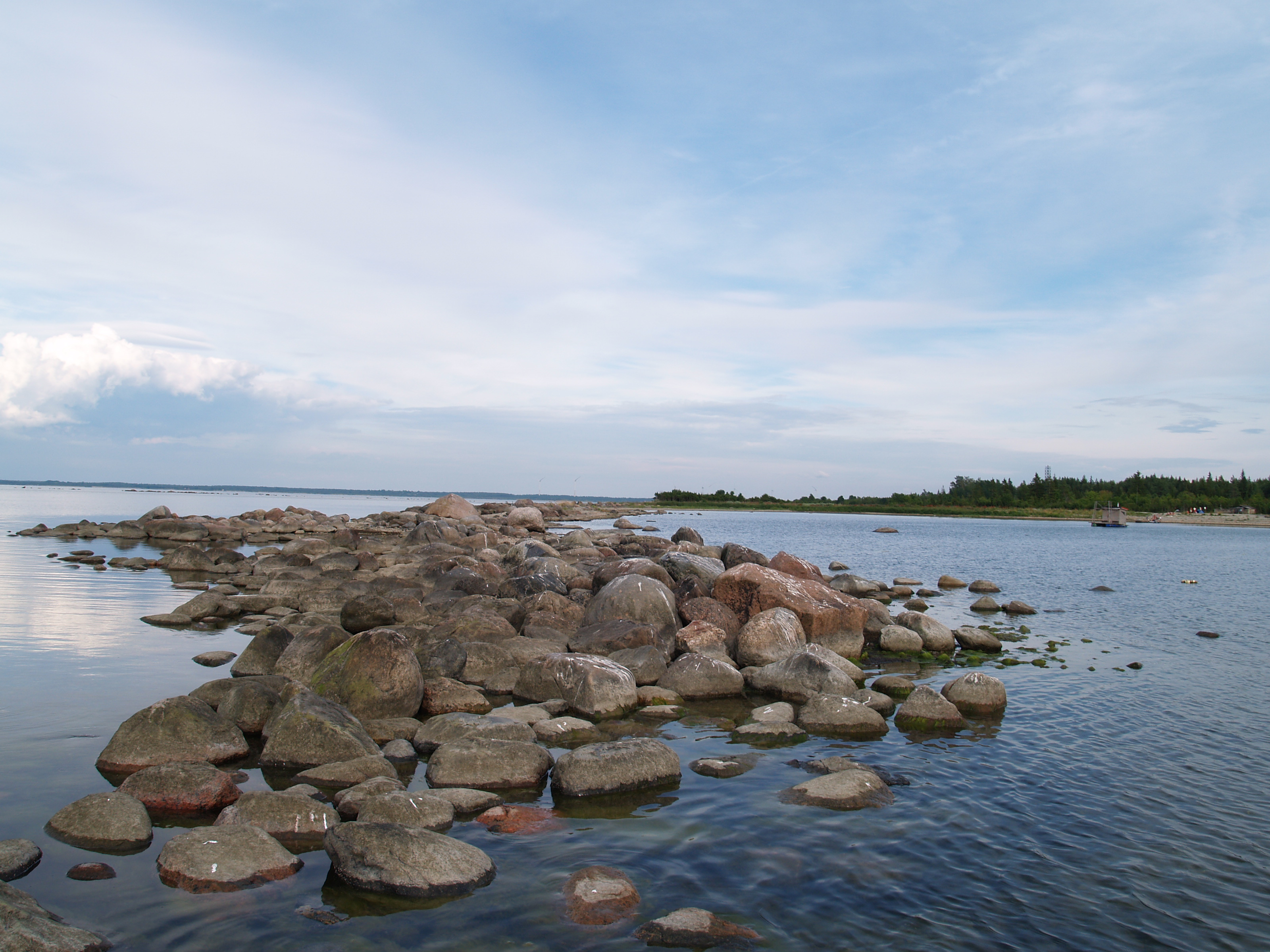 Kesselaid. Suursäär.